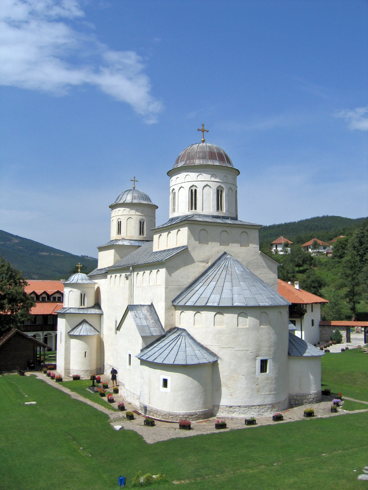 Mileševa church, Serbia, XIII century